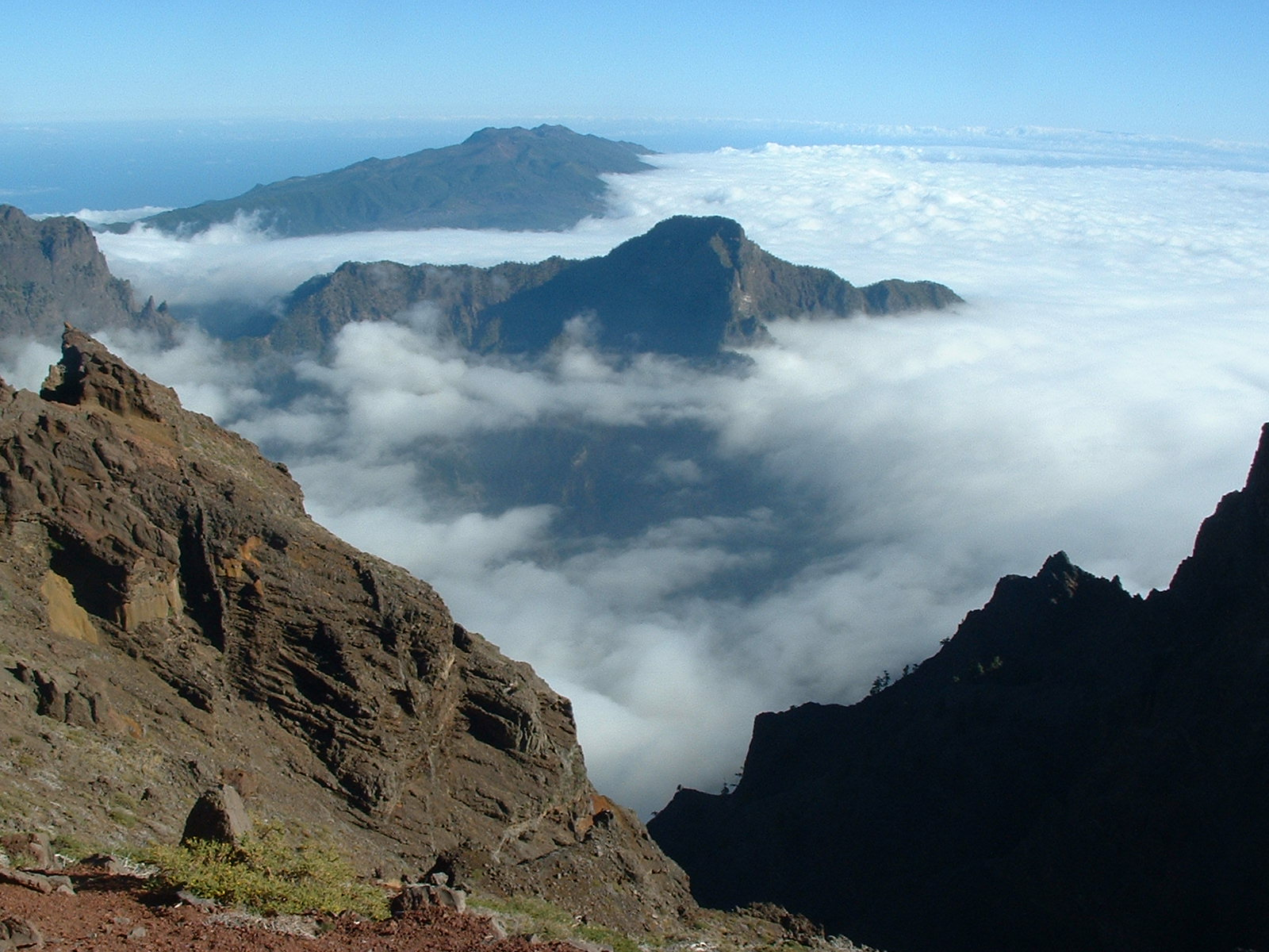 View of the Caldera de la Taburiente from the Roque de los Muchachos, La Palma, Canary Islands